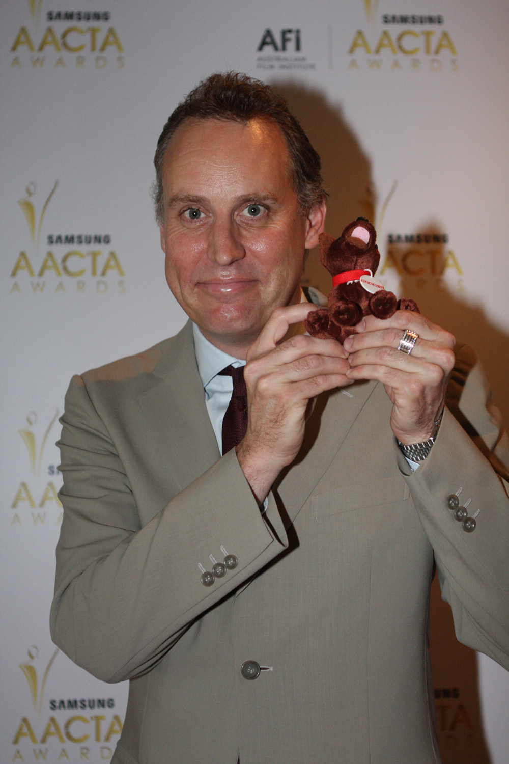 Nelson Woss, producer of "Red Dog", at the AACTA Awards in Sydney.